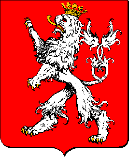 Coat of Arms of Bohemia and the town of Kłodzko. Cut out from the CoA of Czech Republic and modified in GIMP Copyright notice: Image made by Halibutt and uploaded to Wikipedia by the author. Images can be made available for use under other copyleft licenses on a case by case basis via direct contact with the author. Under moral rights the user requires that this work be properly attributed to its creator. For photographs, this is traditionally done in the image caption. Where a copyright notice is present, using the copyright notice in the caption will be sufficient. Note that the GFDL requires that any copyright notices be included with the work even when making unmodified use of it.Since the legal status of the above comment has been questioned, I hereby grant anyone the right to treat it as either a standard copyright notice, invariant section, legal statement, legal advice, friendly suggestion or a mere comment, depending on his or hers own choice.